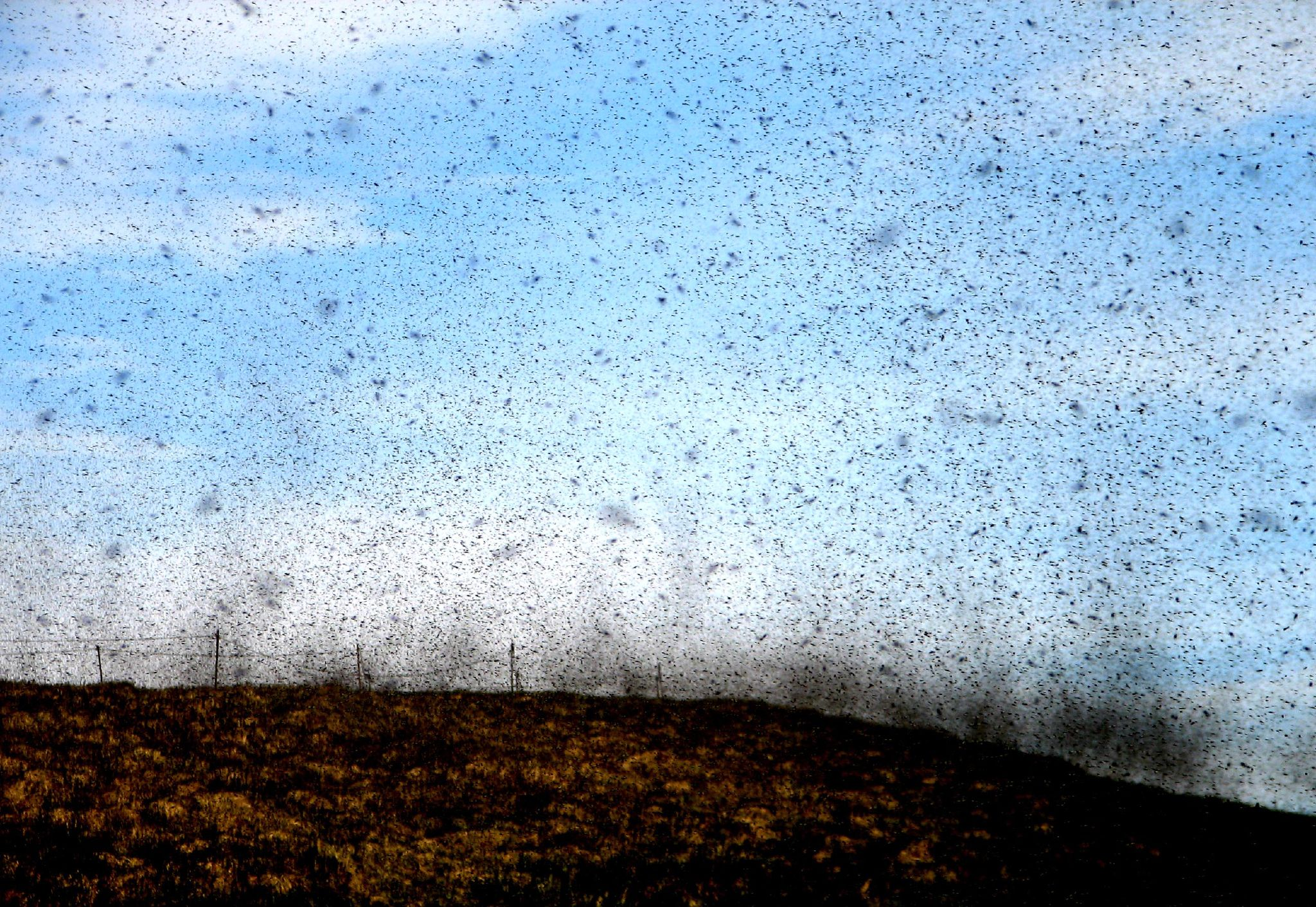 Flies, actually, and fortunately don't bite. Millions of them, they emerge in sort of spouts from the ground.